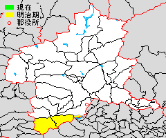 Map showing extent of former Minamikanra District, Gunma, Japan